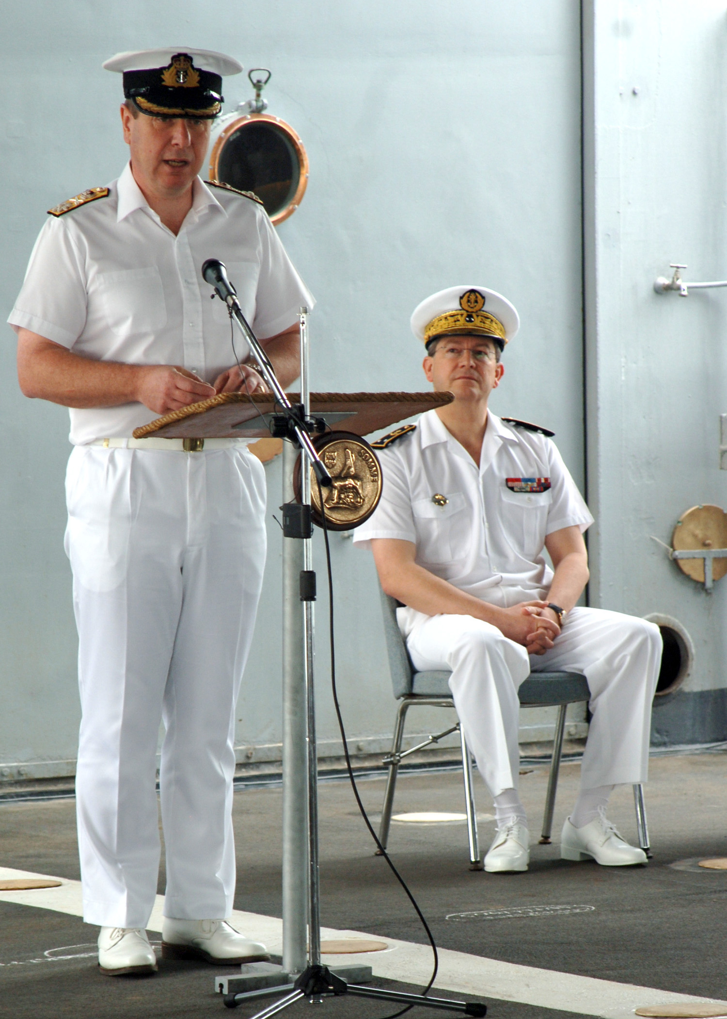 MINA SALMAN, Bahrain (April 4, 2007) - Royal Navy Commodore Bruce Williams addresses service members and guests while French Navy Rear Adm. Alain Hinden looks on during a change of control ceremony aboard the French Afloat Support Ship (FS) Somme (A 631). Williams relinquished command as Commander, Task Force 150 to Hinden during the ceremony.